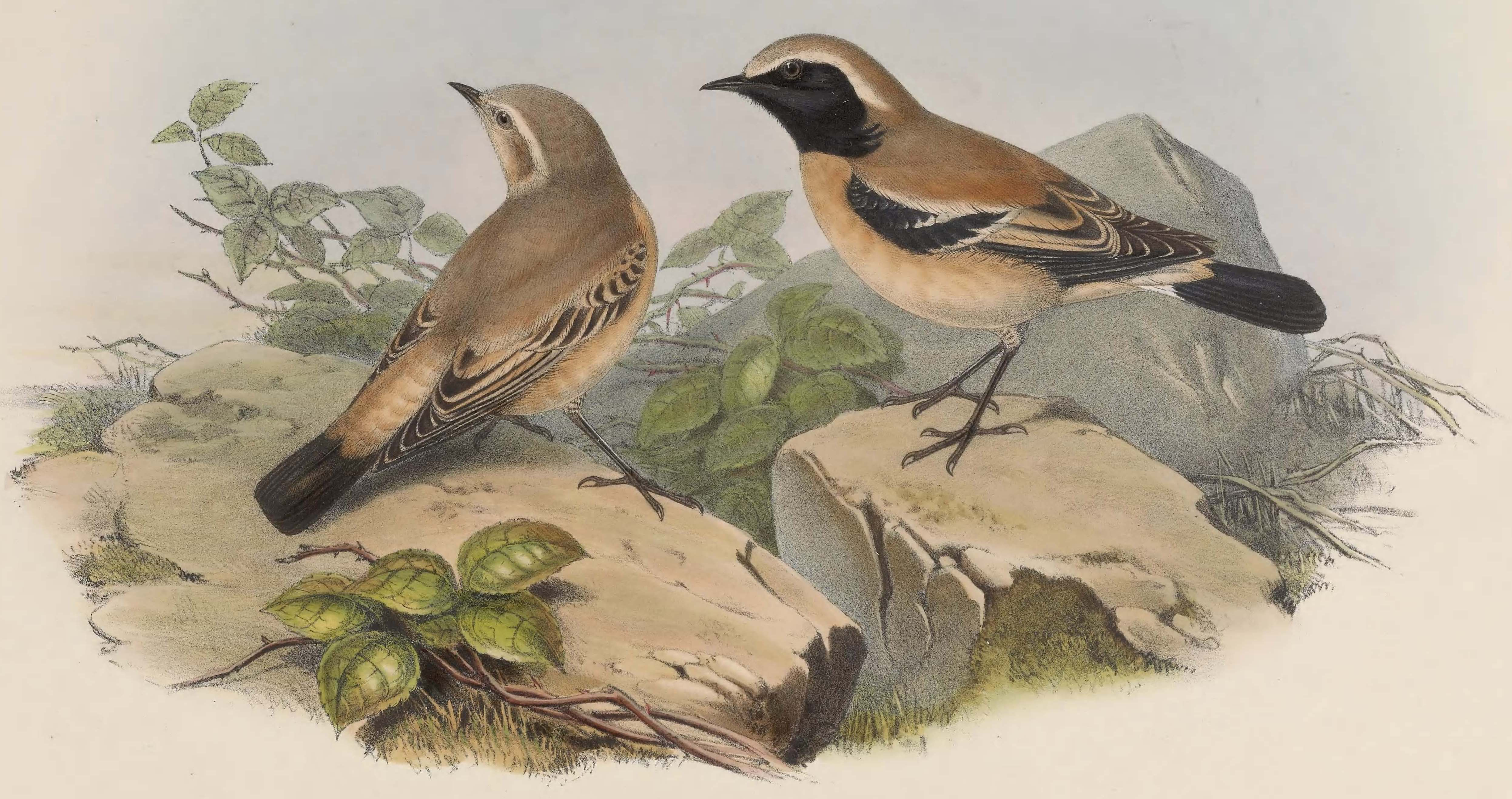 Oenanthe deserti atrogularis (Saxicola atrogularis), John Gould